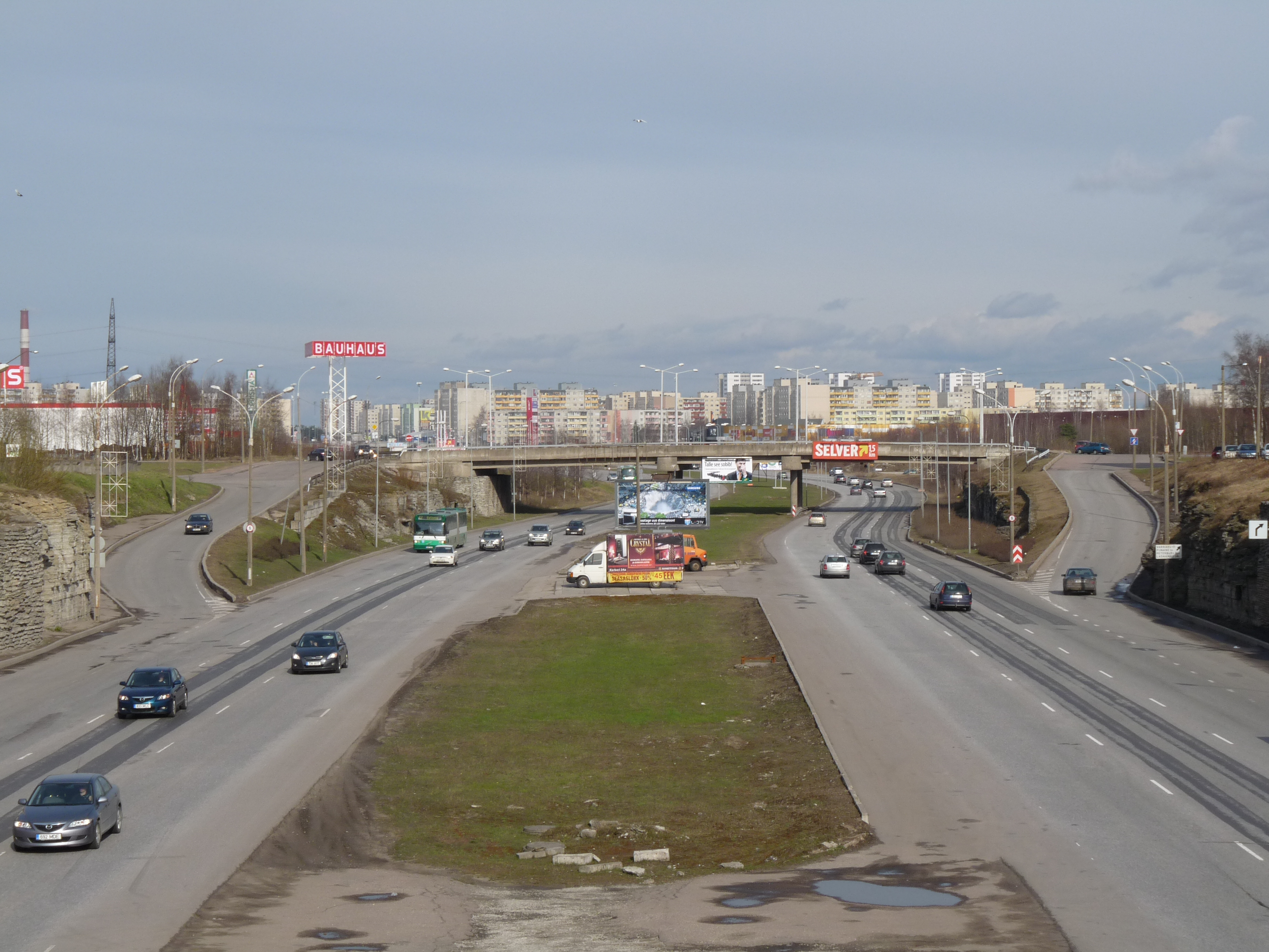 Varraku bridge in Tallinn